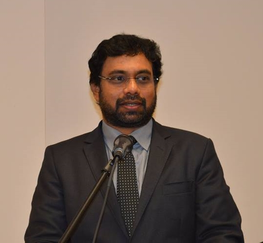 John Brittas